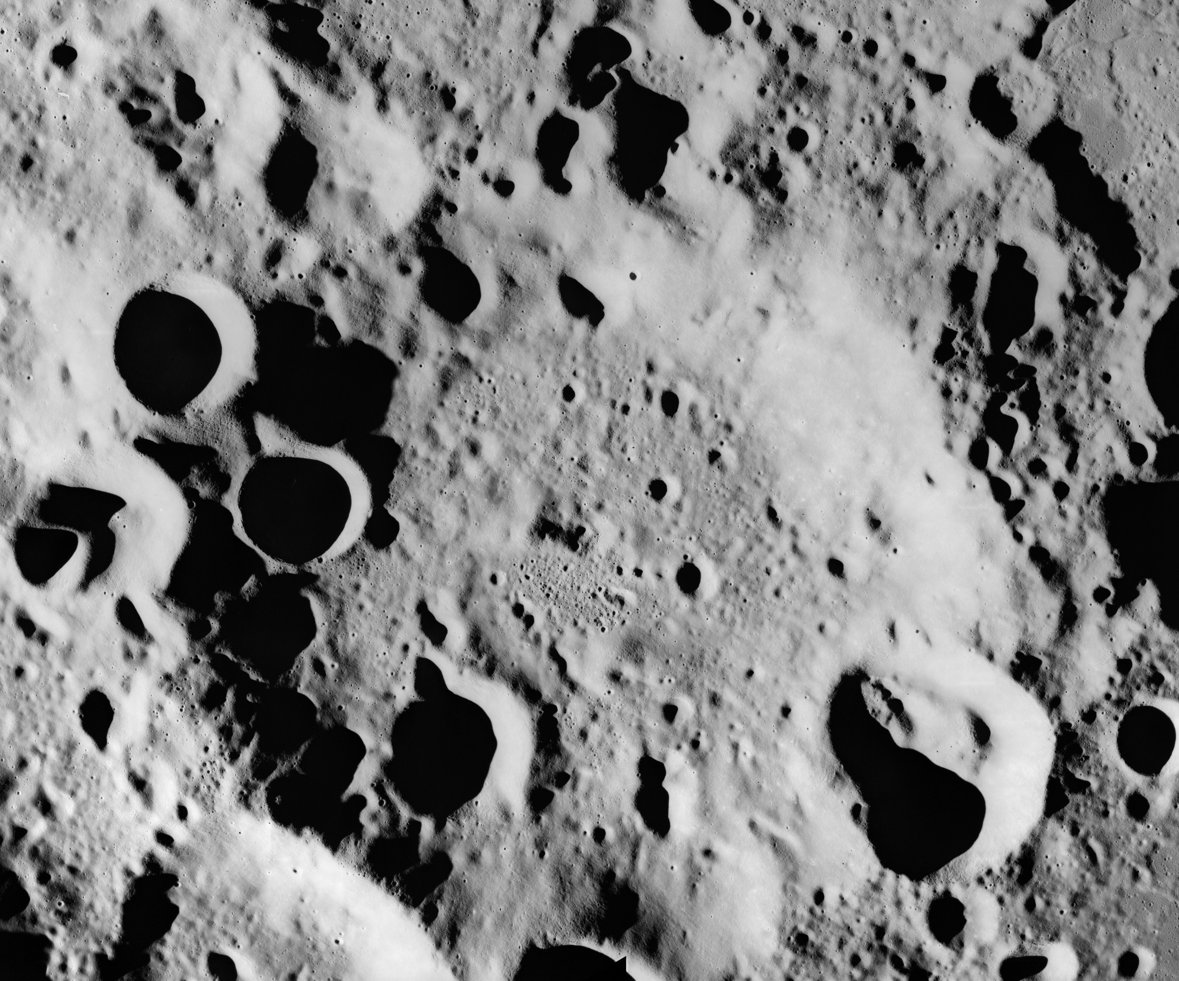 Titius crater on the far side of the moon. Spacecraft altitude: 110 km. Sun elevation: 10 deg.